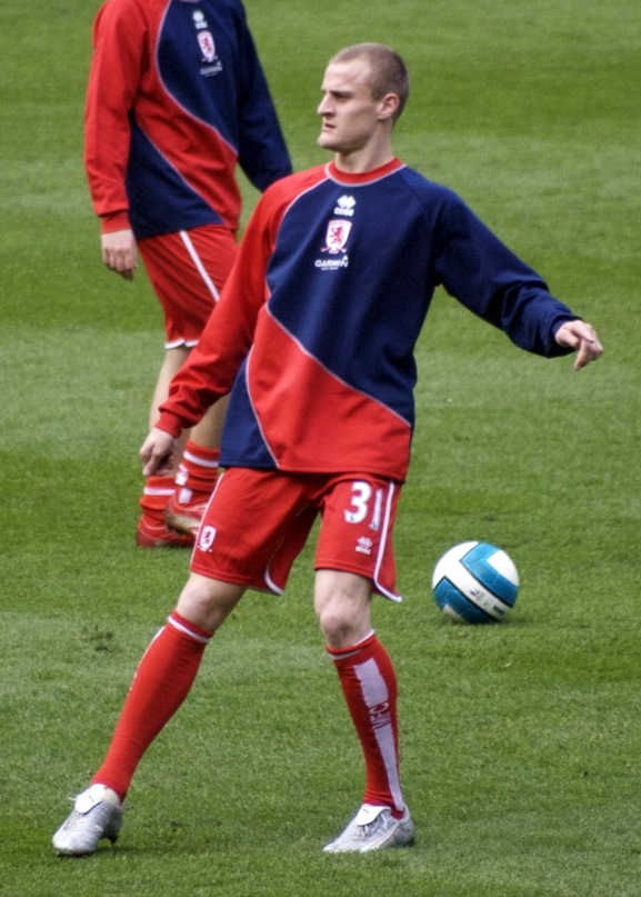 English football player David Wheater as playing for Middlesborough.